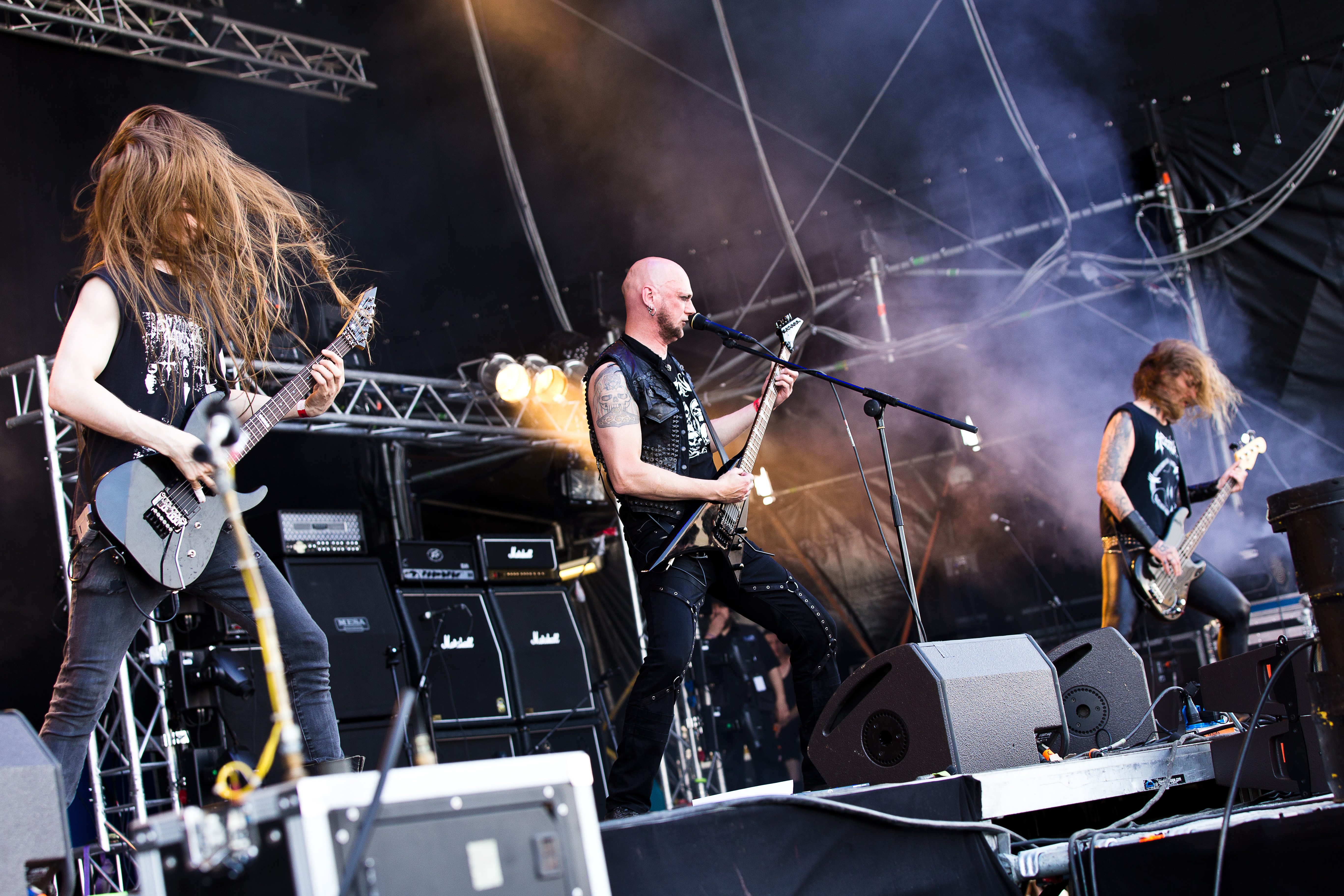 The Norwegian black metal band Aeternus at the Party.San Open Air 2015 in Obermehler-Schlotheim/Germany.